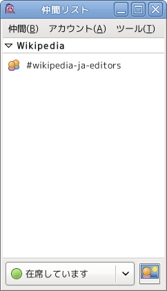 Pidgin. on Debian Lenny.